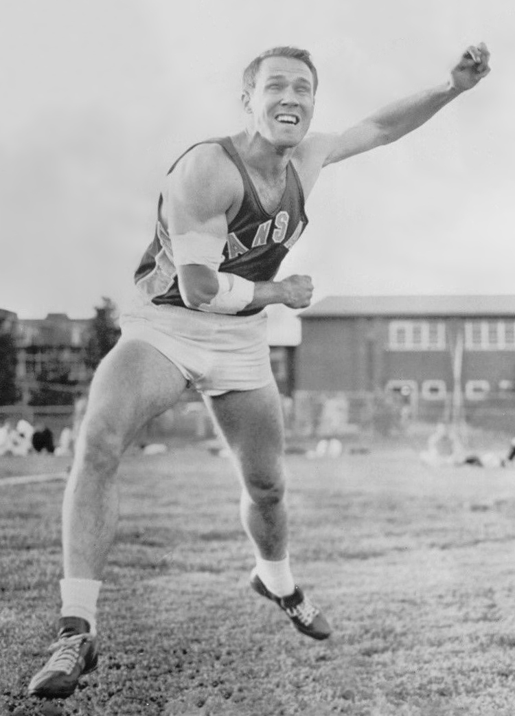 LD33 1959 Wire Photo BILL ALLEY Kansas University Javelin Throw College Athlete